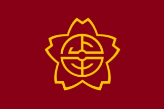 Flag of Former Ueda Nagano